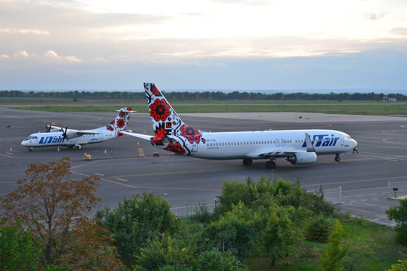 UTair Ukraine Boeing 737-800 at ATR 42-300 at Lugansk Airport